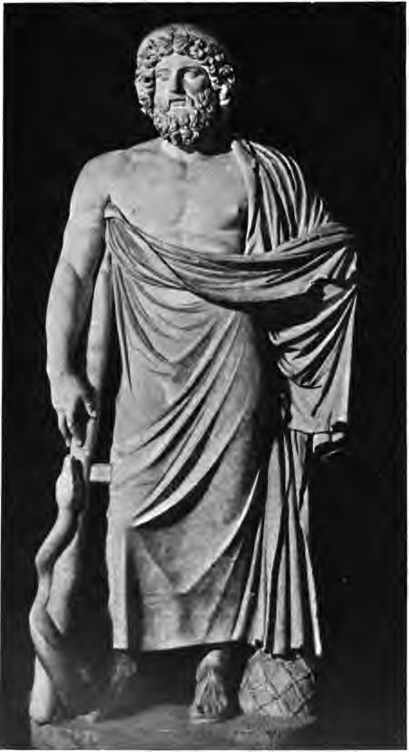 Author: Furtwängler, Adolf, 1853-1907. [from old catalog]; Urlichs, Heinrich Ludwig, 1864- [from old catalog] joint author Subject: Sculpture, Greek. [from old catalog]; Sculpture, Roman. [from old catalog] Publisher: München, F. Bruckmann a. g Year: 1904 Possible copyright status: NOT_IN_COPYRIGHT Language: German Digitizing sponsor: Google Book contributor: Harvard University Collection: americana